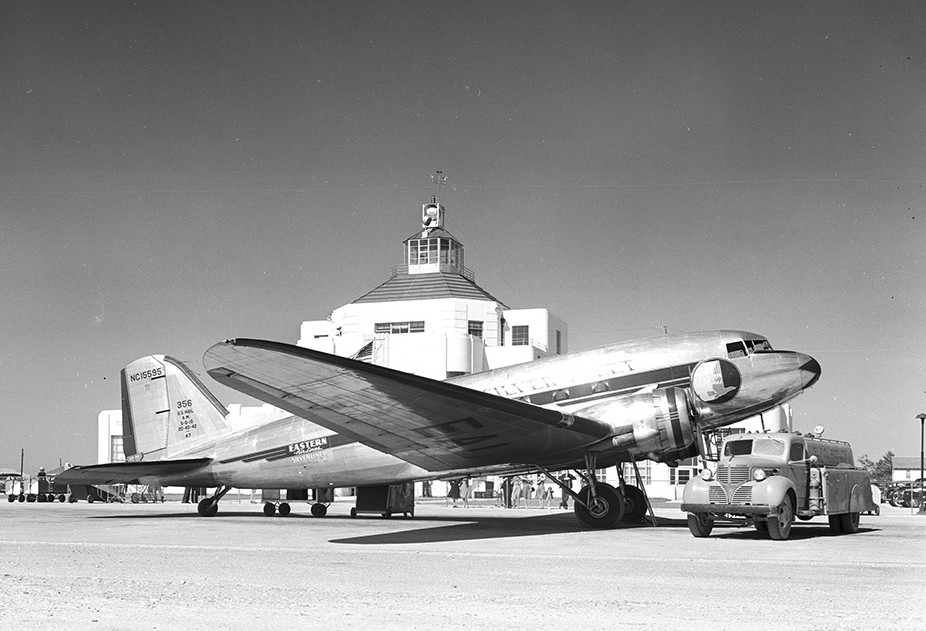 Title: [DC-3 Aircraft at Houston Municipal Airport, Eastern Airlines] Creator: Richie, Robert Yarnall, 1908-1984 Date: April 1941 Part Of: Robert Yarnall Richie Photograph Collection Place: Houston, Texas Description: Eastern Airlines DC-3 aircraft in front of terminal at Houston Municipal Airport. Physical Description: 1 negative: film, black and white; 10.1 x 12.8 cm File Name: ag1982_0234_2241_02_eastairlines_sm_opt.jpg Rights: Please cite Southern Methodist University, Central University Libraries, DeGolyer Library when using this image file. A high-quality version of this file may be obtained for a fee by contacting . For more information and to view the image in high resolution, see: View Robert Yarnall Richie photograph collection at